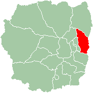 Location map of Manjakandriana region in Antananarivo province.